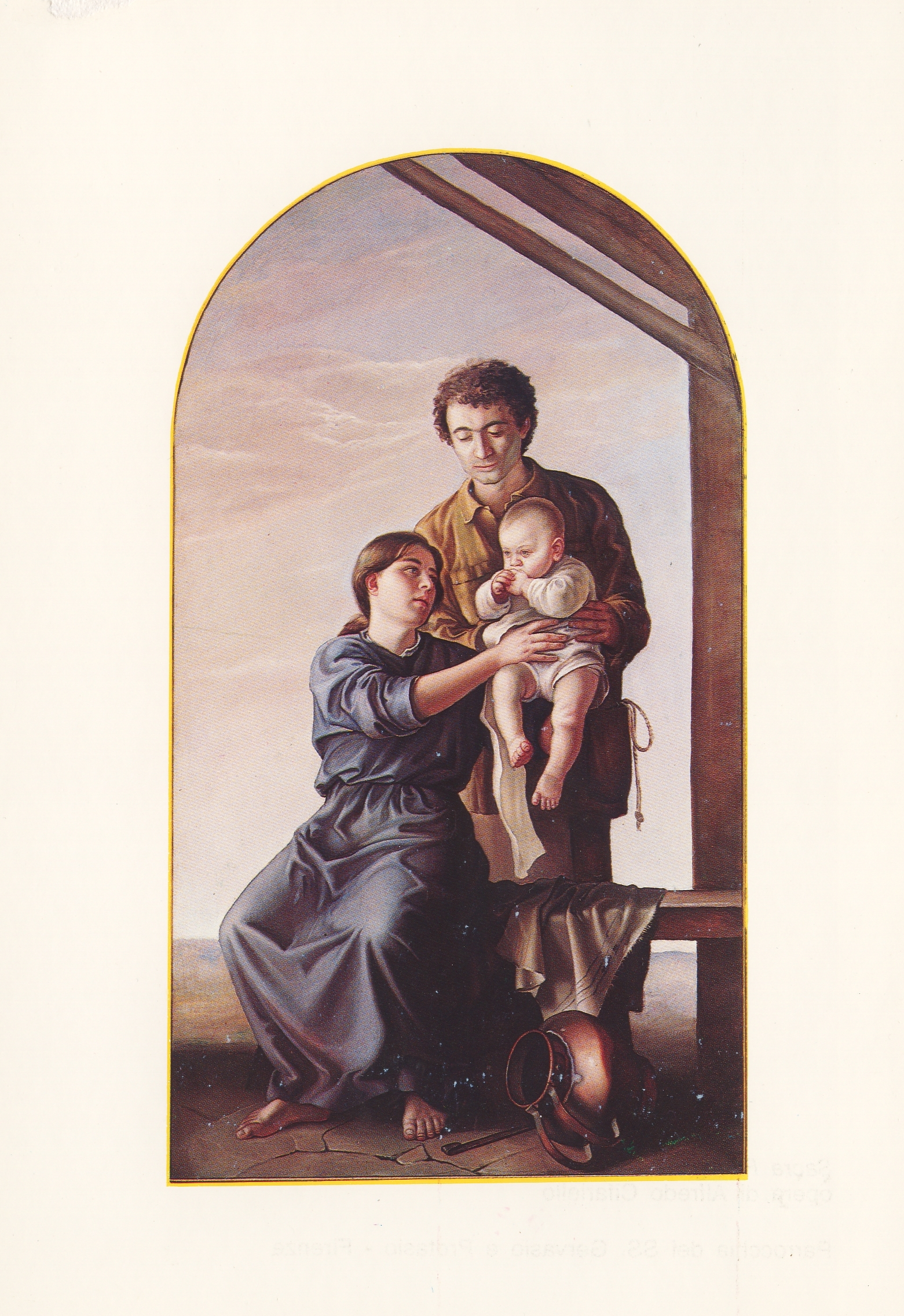 paintings by Alfredo Cifariello